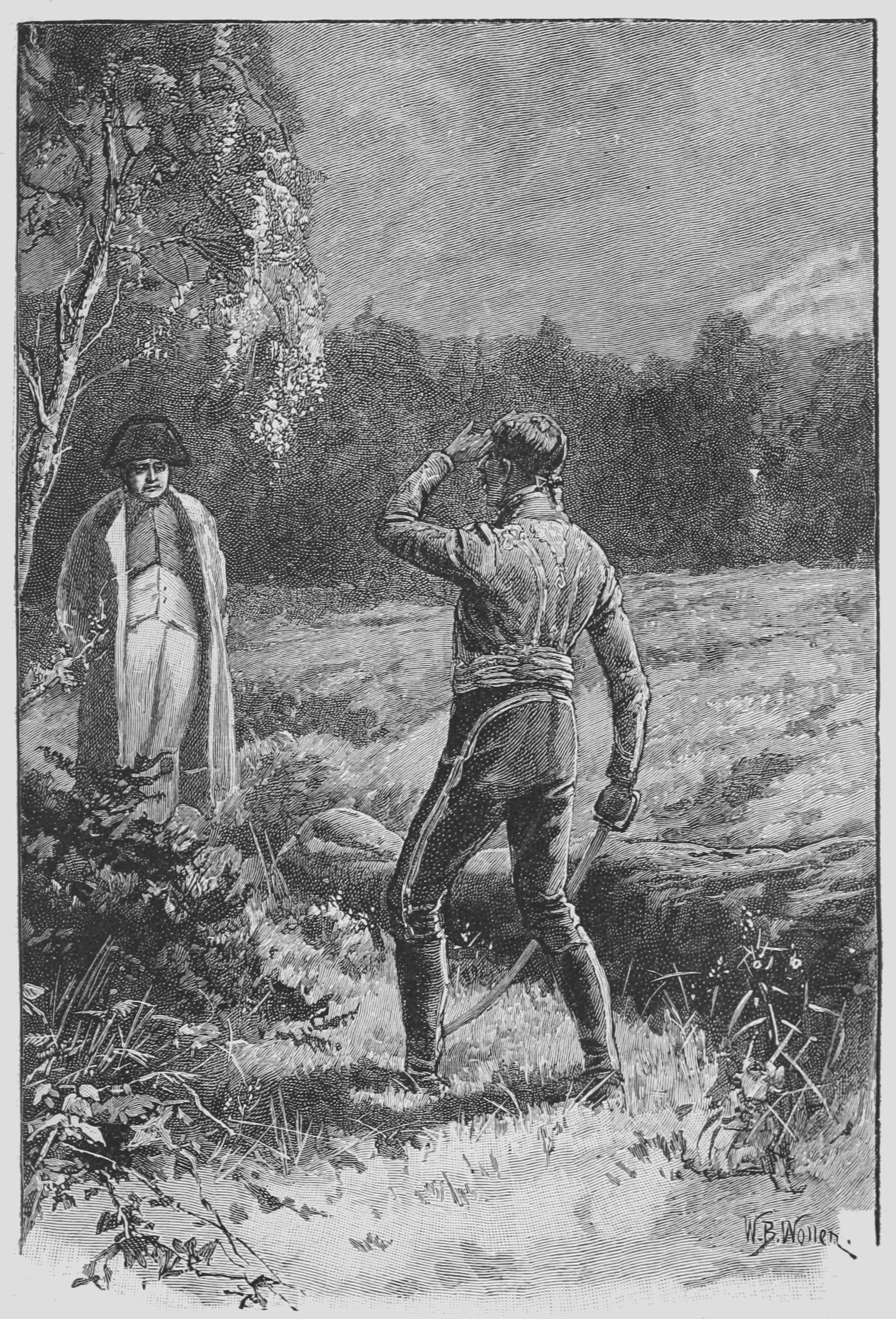 Plate of The Exploits of Brigadier Gerard